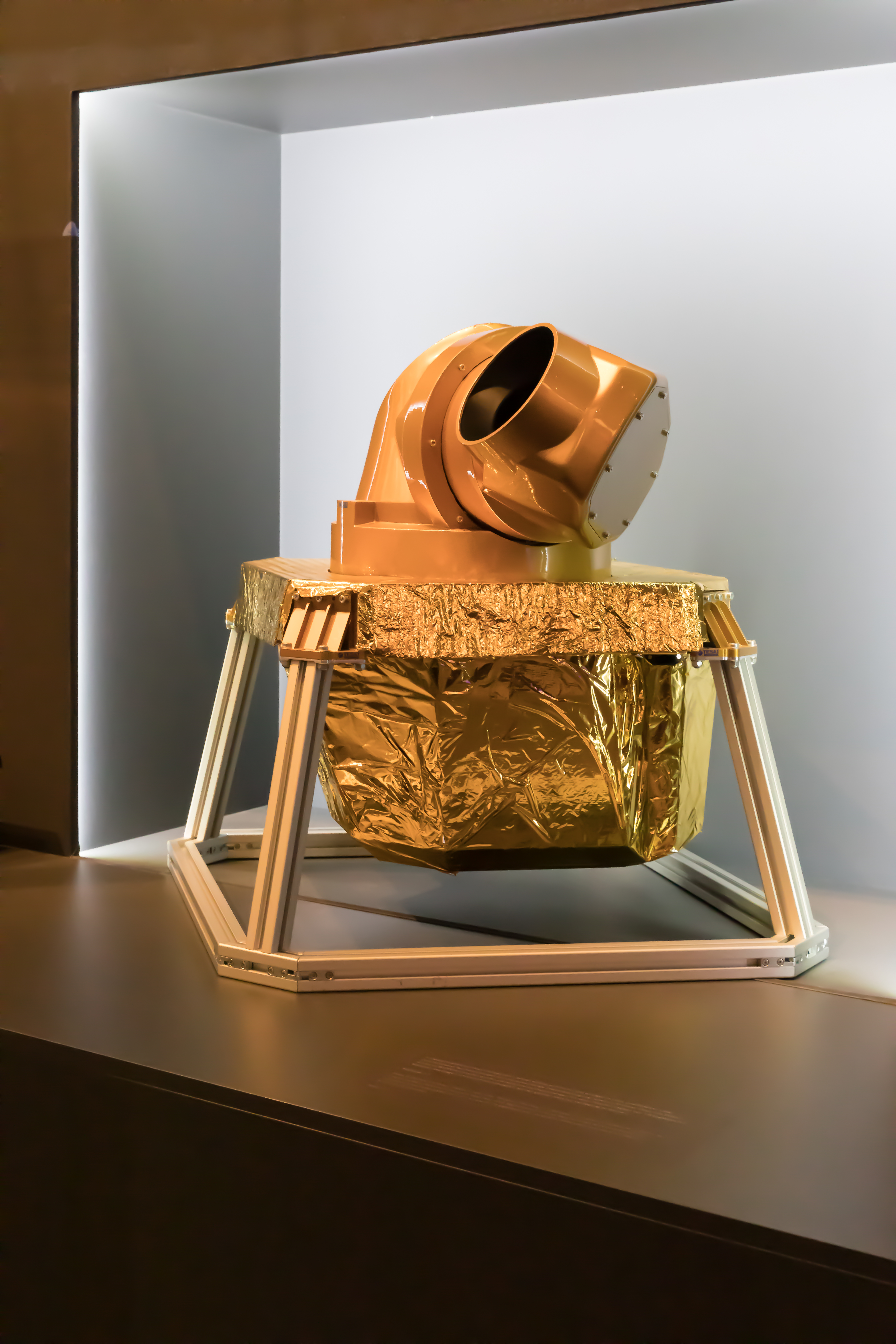 ILA 2018, Laser Communication Terminals by Tesat